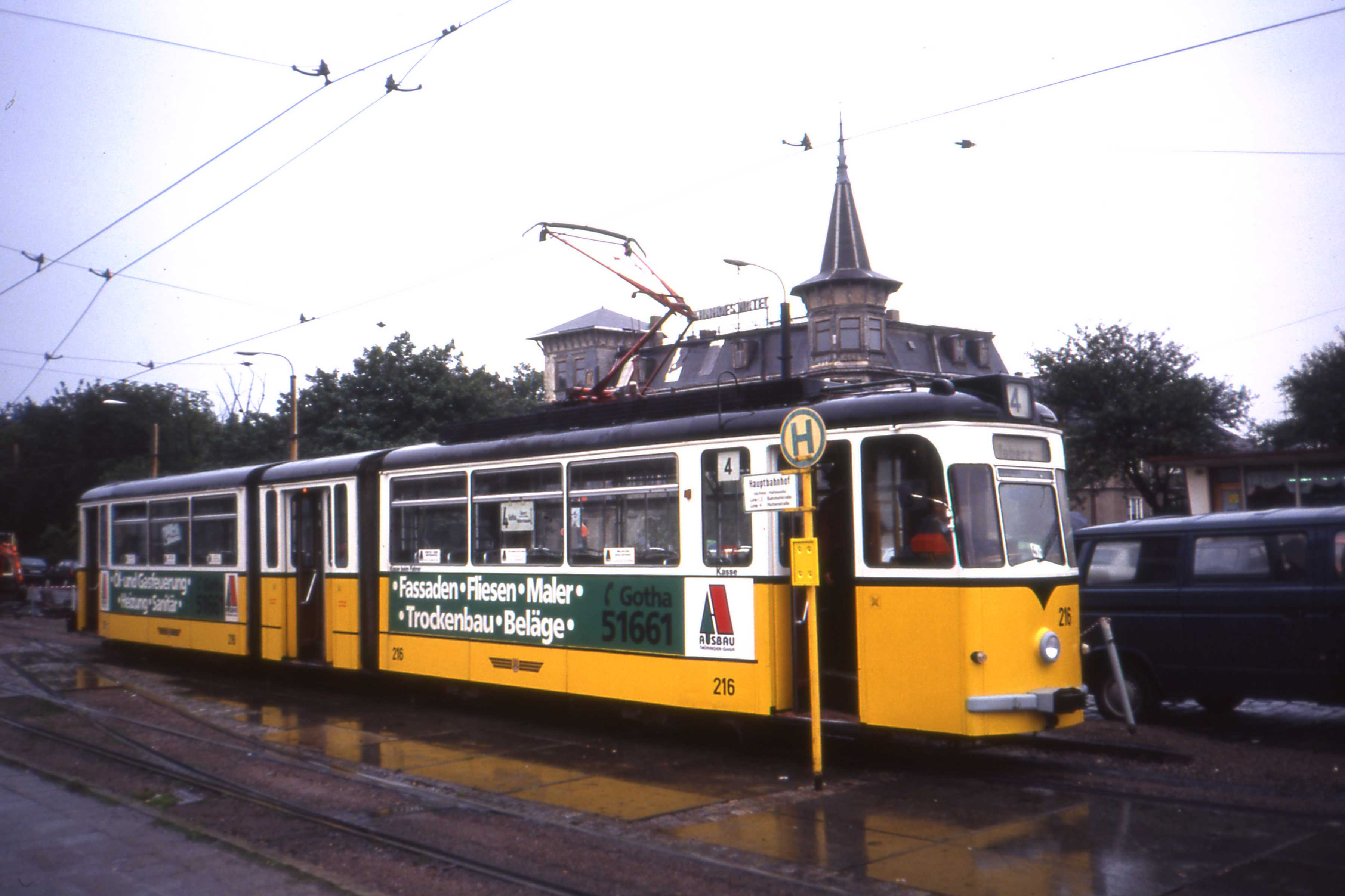 Thüringerwaldbahn ( rural route 4 yellow livery on this handsome articulated Gotha tram nr 216 without the trailer used during DDR times waiting at the Hauptbahnhof after a downpour. It looks as if the tram has been converted to one-person operation, with the driver issuing tickets, and signs for Kasse and Kasse beim Fahrer on the side. Between 1989 and 1991 some of the articulated Gotha GT4 units of the Gotha concern, used on the long overland route to the mountain resort of Tabarz received this yellow livery, in common with some of the newer Tatra trams. Trams used exclusively on Gotha town services were painted a light blue. The town sign for Walterhshausen has been replaced in the previous year, having sported the name of the DDR Bezirk ERFURT previously. Car no 216 was scrapped in 1994. Car 215 survives from the 16 such vehicles.